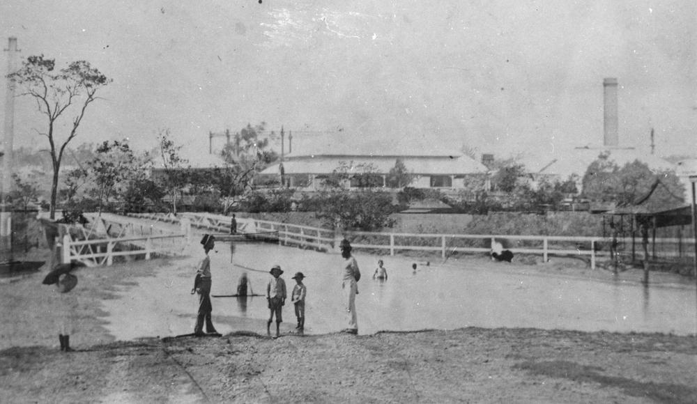 Bundaberg during a flood, 1893.